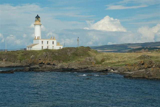 Turnberry Lighthouse